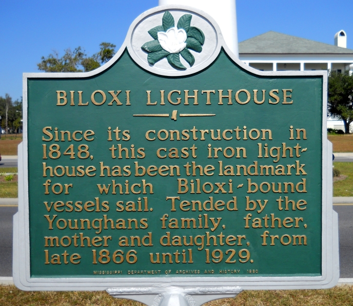 Historical marker at the Biloxi Lighthouse, U.S. Route 90, Biloxi, Mississippi, USA